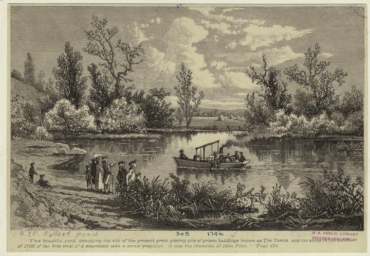 Collect pond in 1796. Caption reads: "This beautiful pond, occupying the site of the present great gloomy pile of prison buildings known as The Tombs, was the scene in the summer of 1796 of the first trial of a steamboat with a screw propeller. It was the invention of John Fitch."